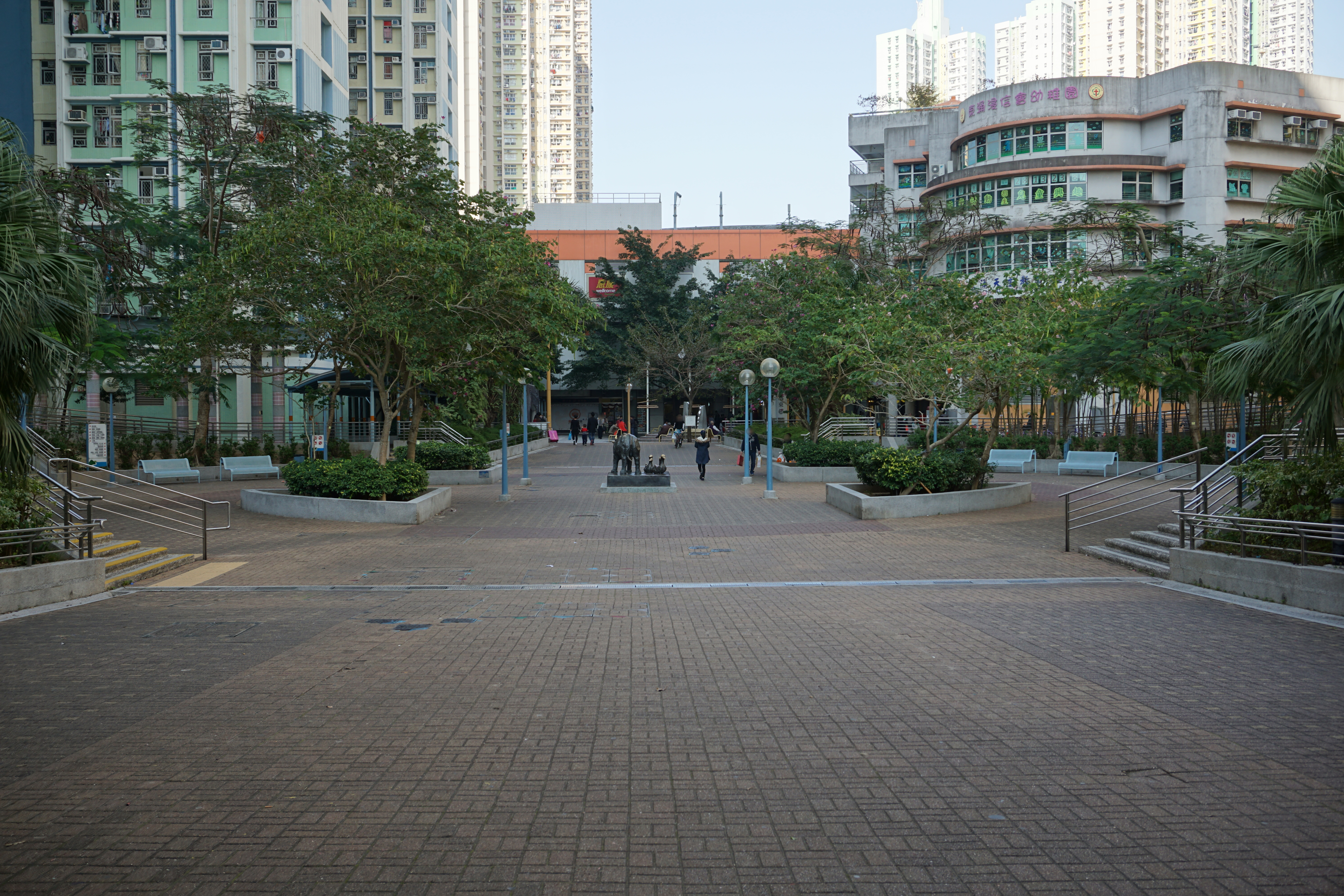 Yat Tung Estate in Tung Chung, Hong Kong.